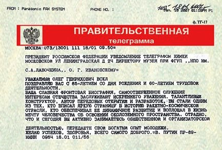 Greetings to Oleg G. Ivanovsky on his 85th birthday from President of Russia Vladimir Putin. 18 January 2007.